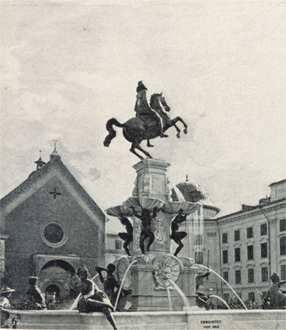 The Leopoldsbrunnen (Leopold fountain) in Innsbruck